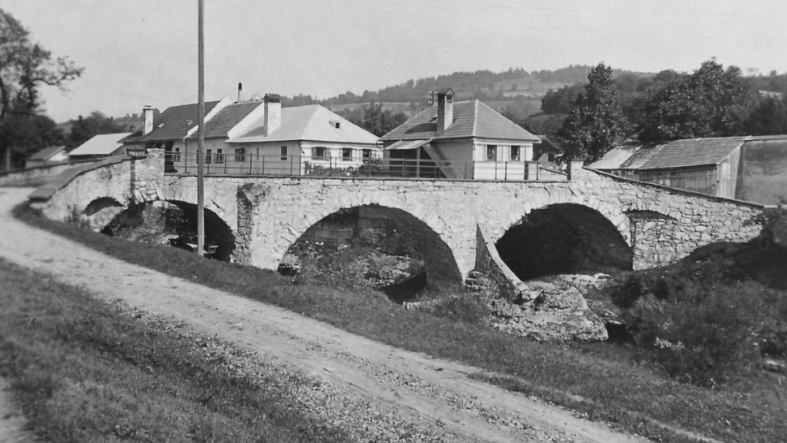 Römerbrücke